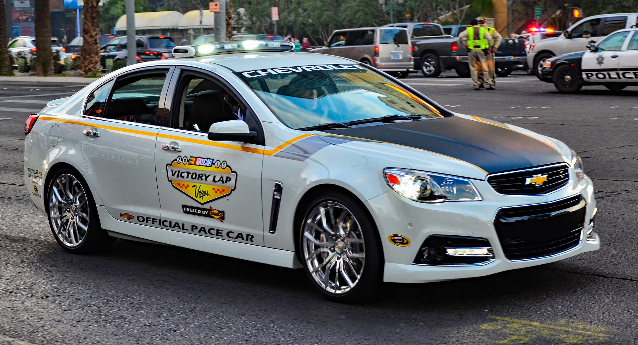 TDelCoro December 3, 2015